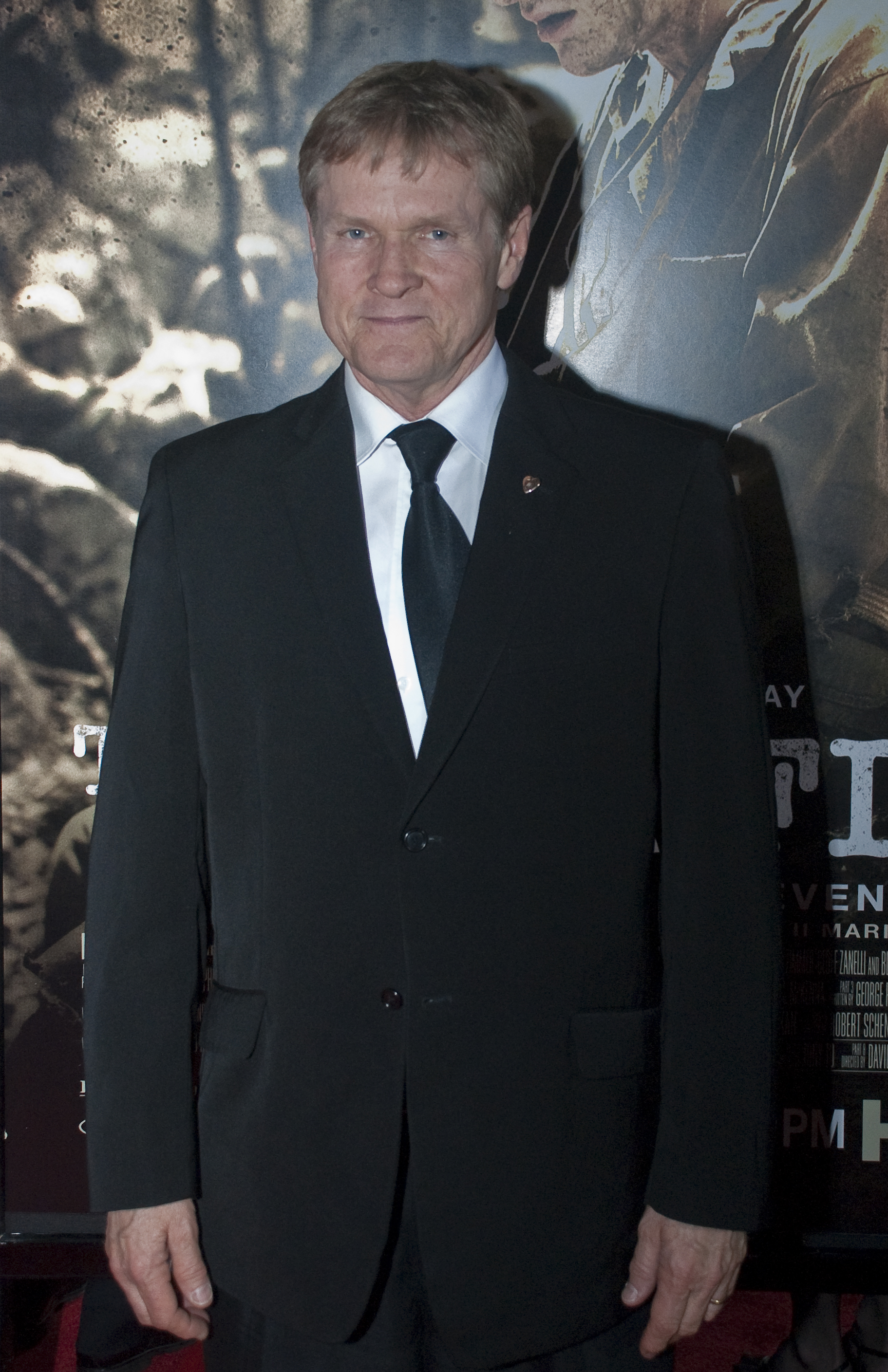 William Sadler plays Lt. Col. Lewis 'Chesty' Puller in HBO's new 10-part miniseries 'The Pacific.'